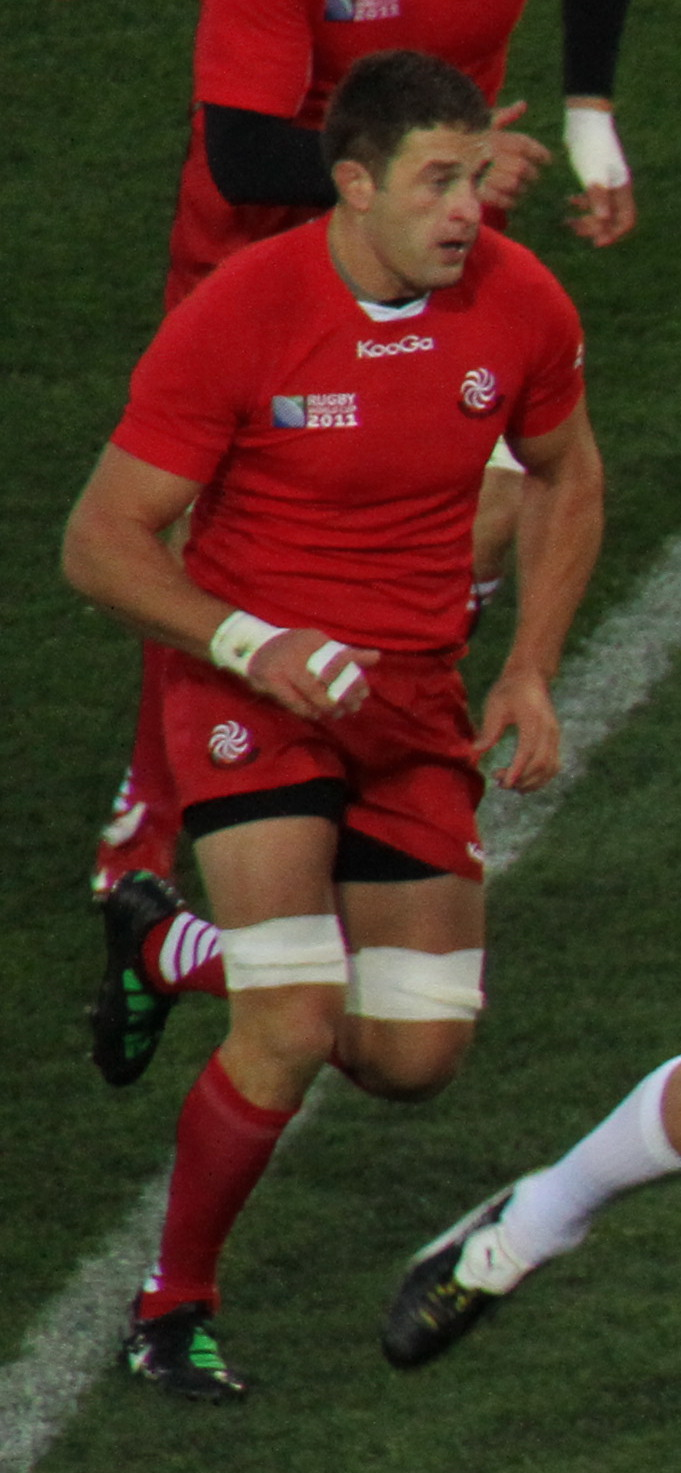 Georgian rugby union player Shalva Sutiashvili during 2011 Rugby World Cup against England.